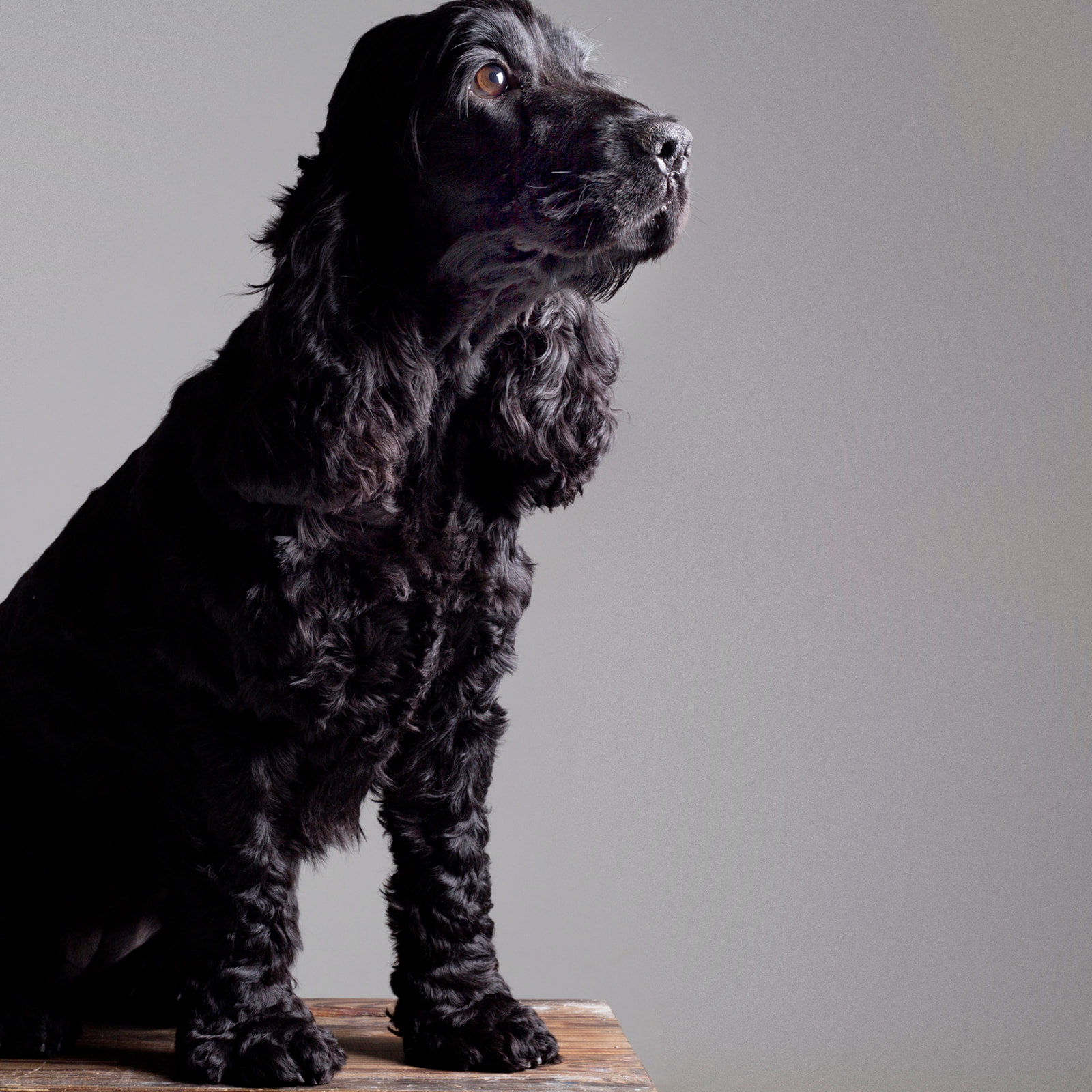 This is a picture of a black English Cocker-Spaniel called Mollie, 4 years old.